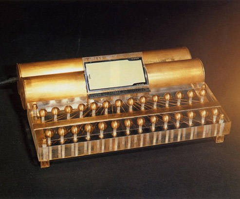 Liquid crystals directly connected with the keys of the machine are sensitized through exposure to an ultra-violet lamp. When a hand charged with static electricity touches the keys, characters and numbers appear in the liquid crystal display.